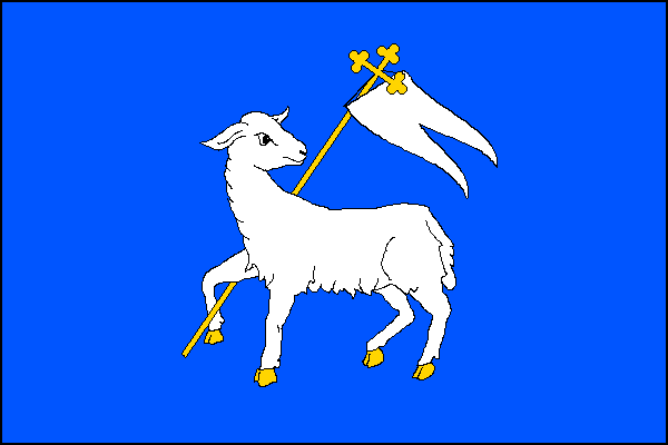 Municipal flag of Kunovice town, Uherské Hradiště District, Czech Republic.